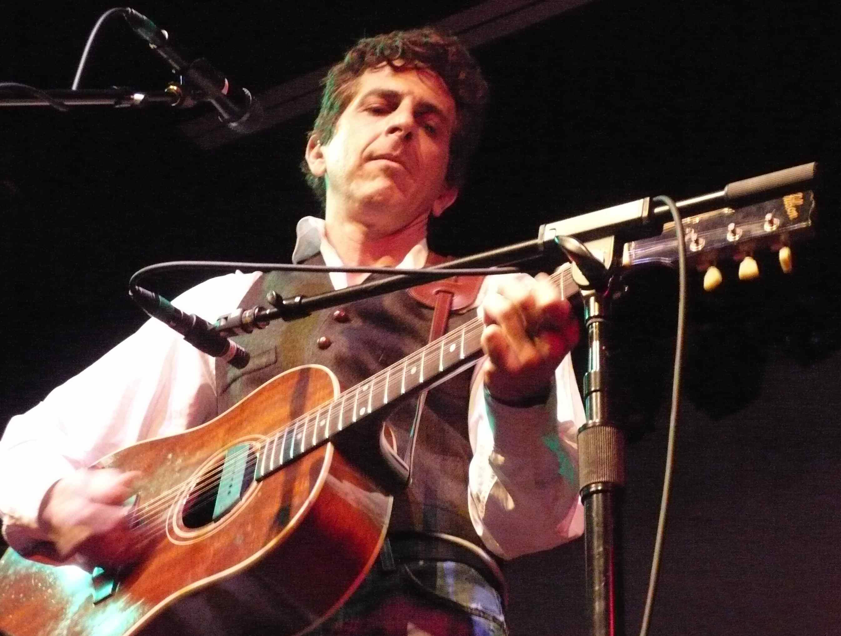 Michael Penn; April 27, 2007